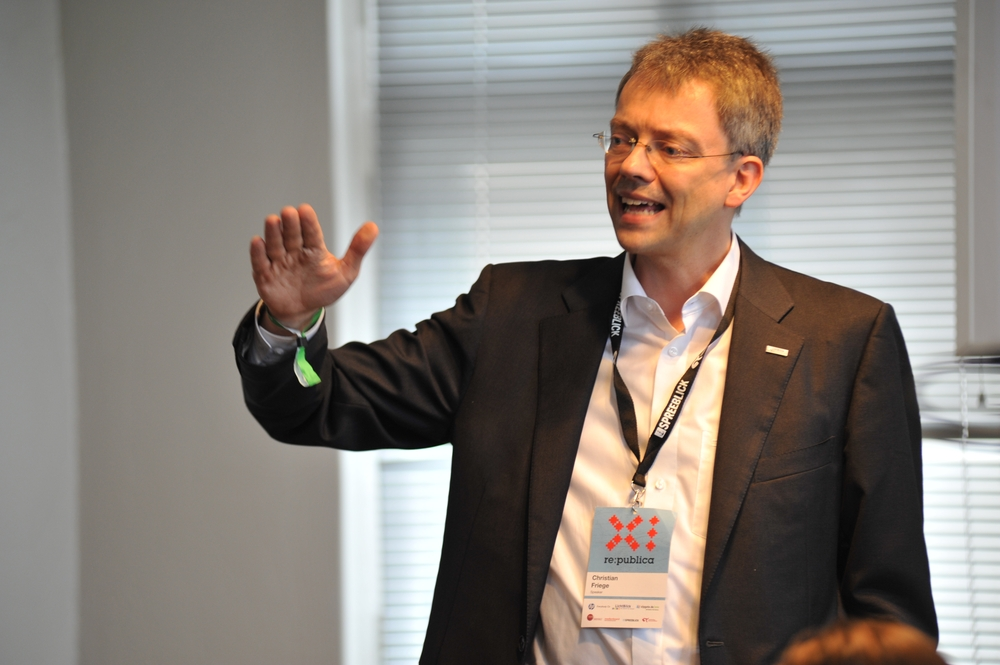 Christian Friege * (cc) dirk haeger / re:publica 2011